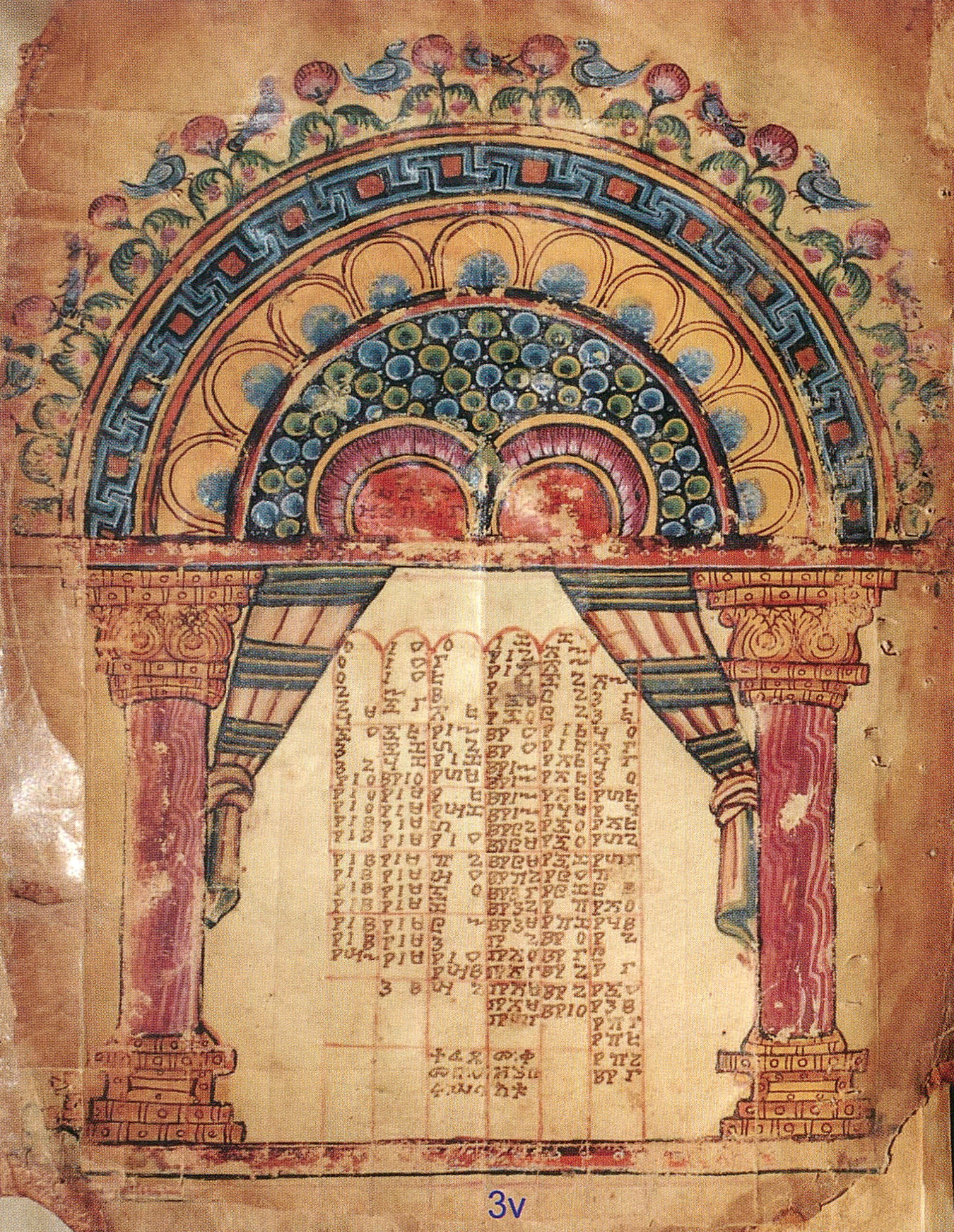 Illumination from the Garima Gospels